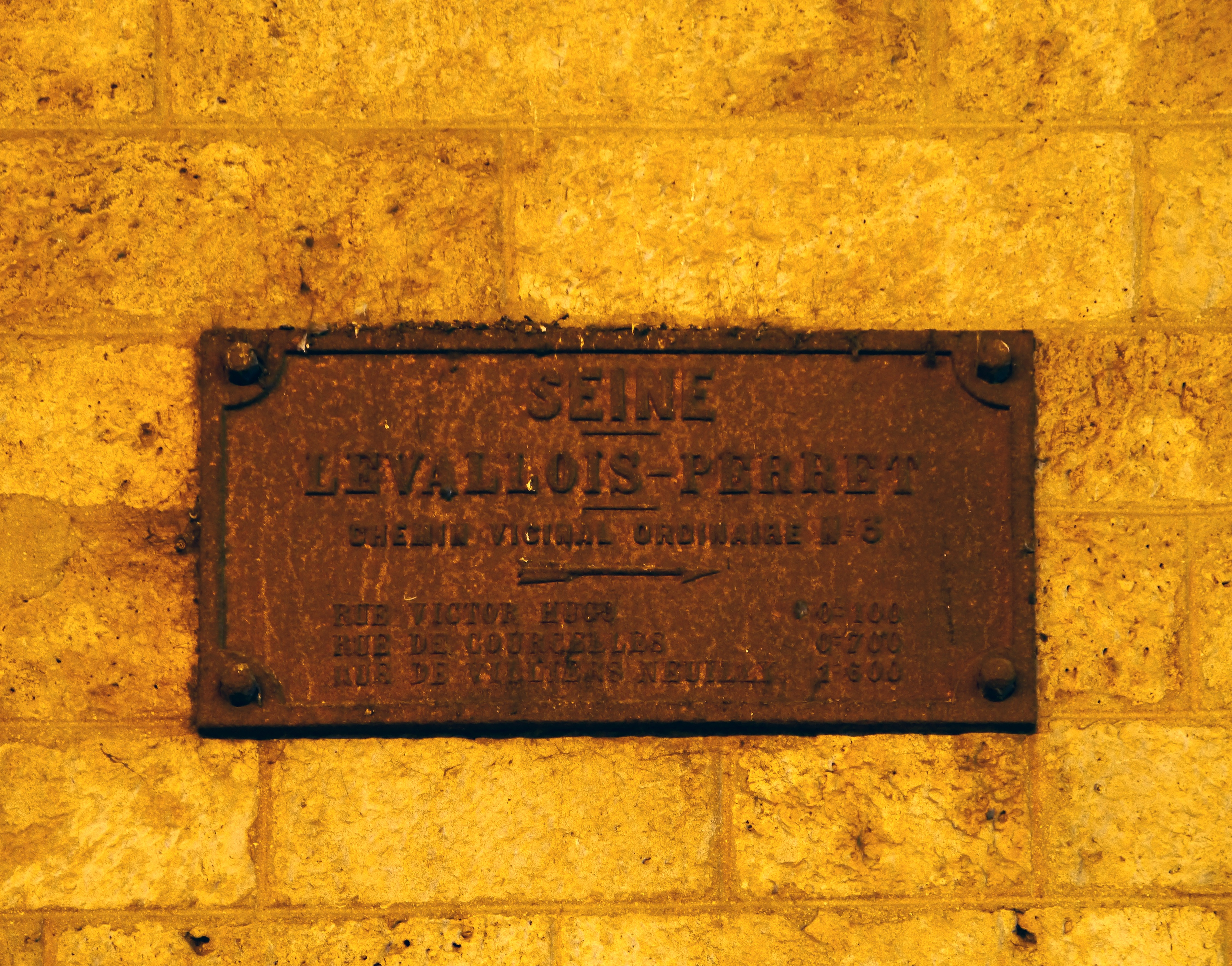 Levallois-Perret, rue Paul-Vaillant-Couturier: plaque de cocher under the railroad bridge.